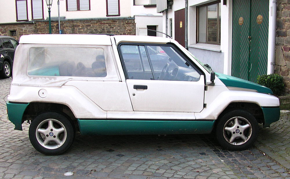 Aixam Mega Coupé